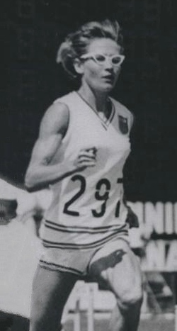 1967 Press Photo Madeline Manning and Doris Brown run at women 800 meter